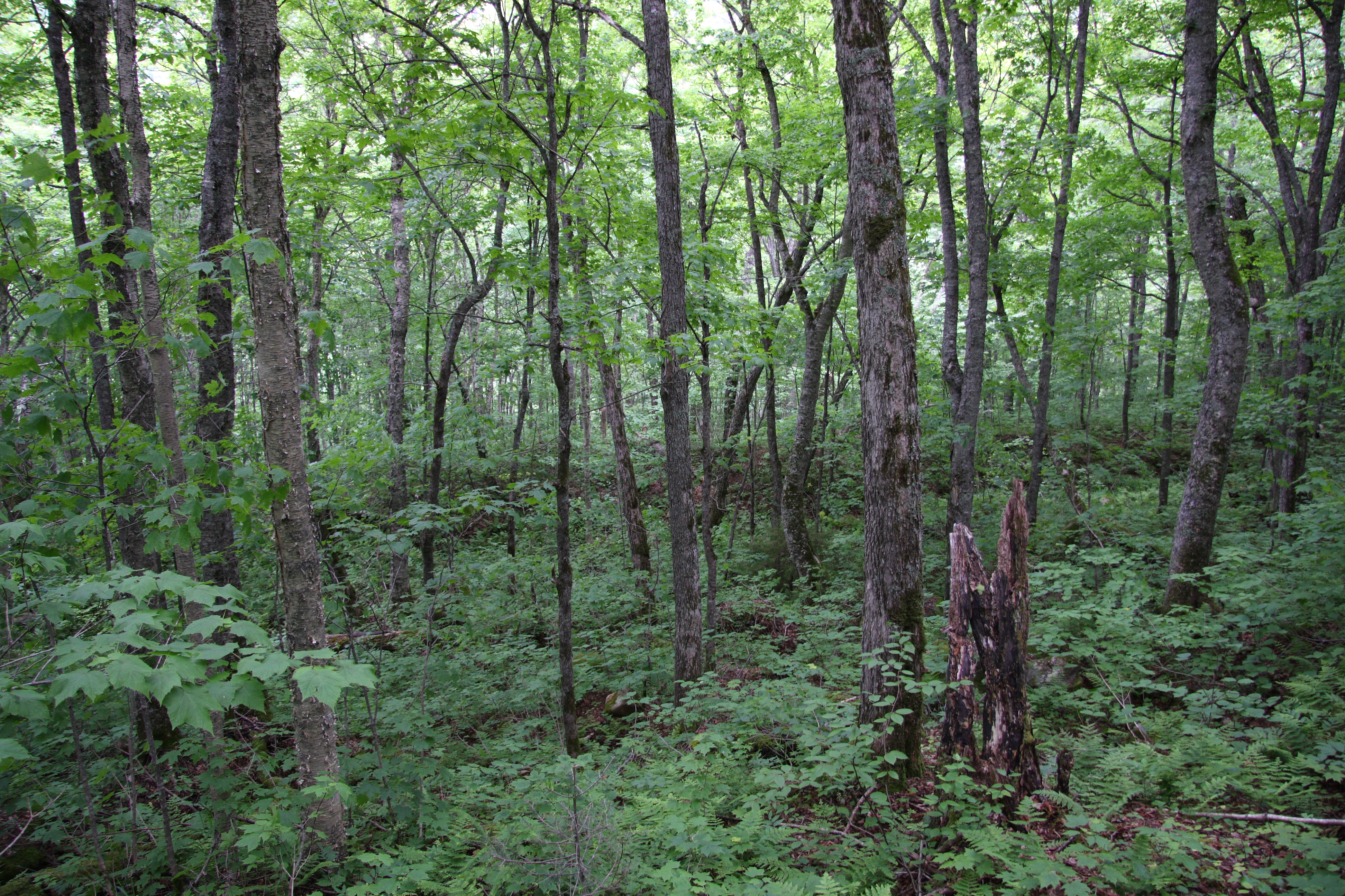 Sugar maple - Yellow birch association forest understory, Jacques-Cartier National Park, Quebec, Canada